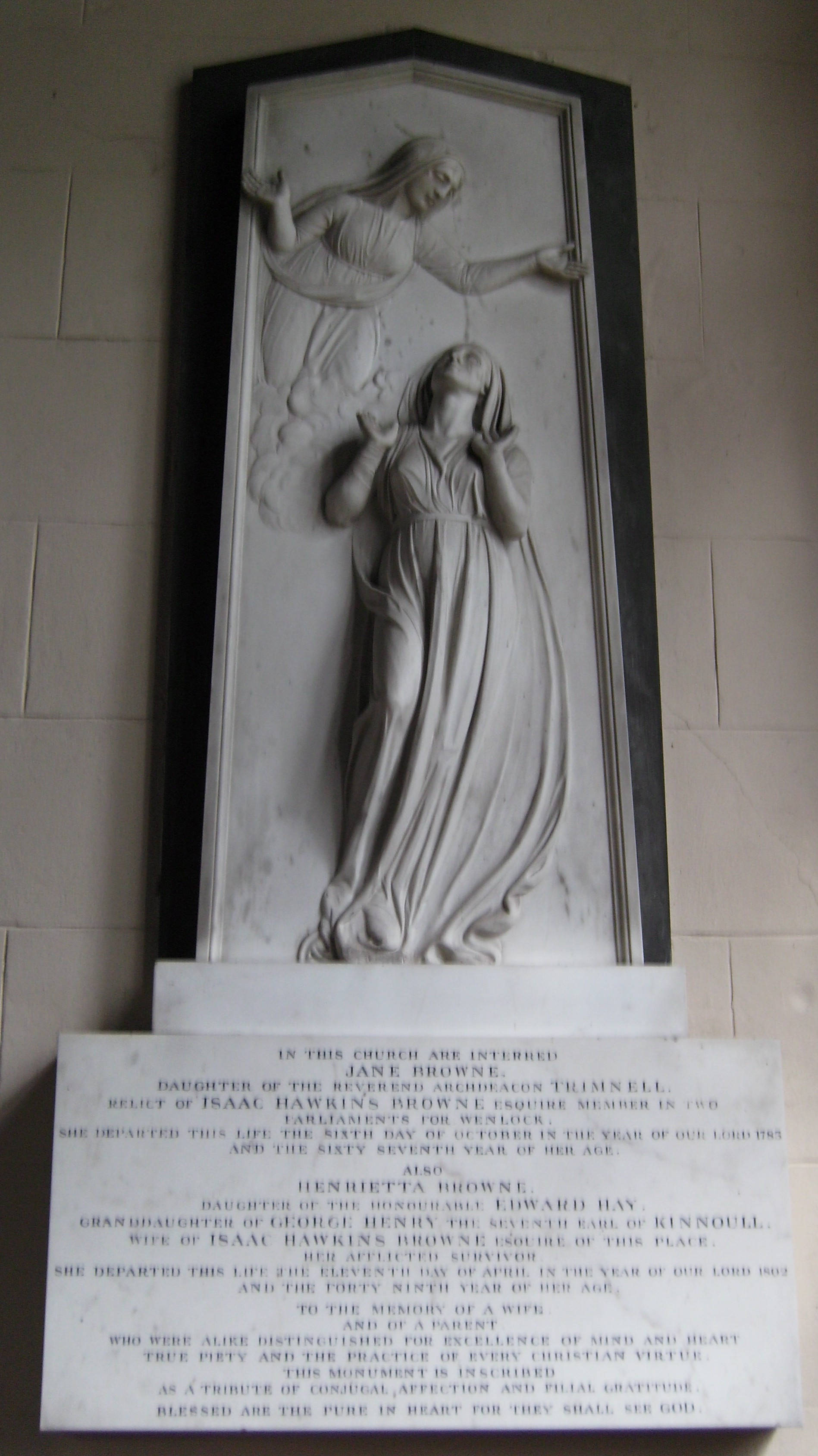 Memorial to Jane and Henrietta Browne, mother and wife of IH Browne, Badger parish church, Shropshire. By John Flaxman